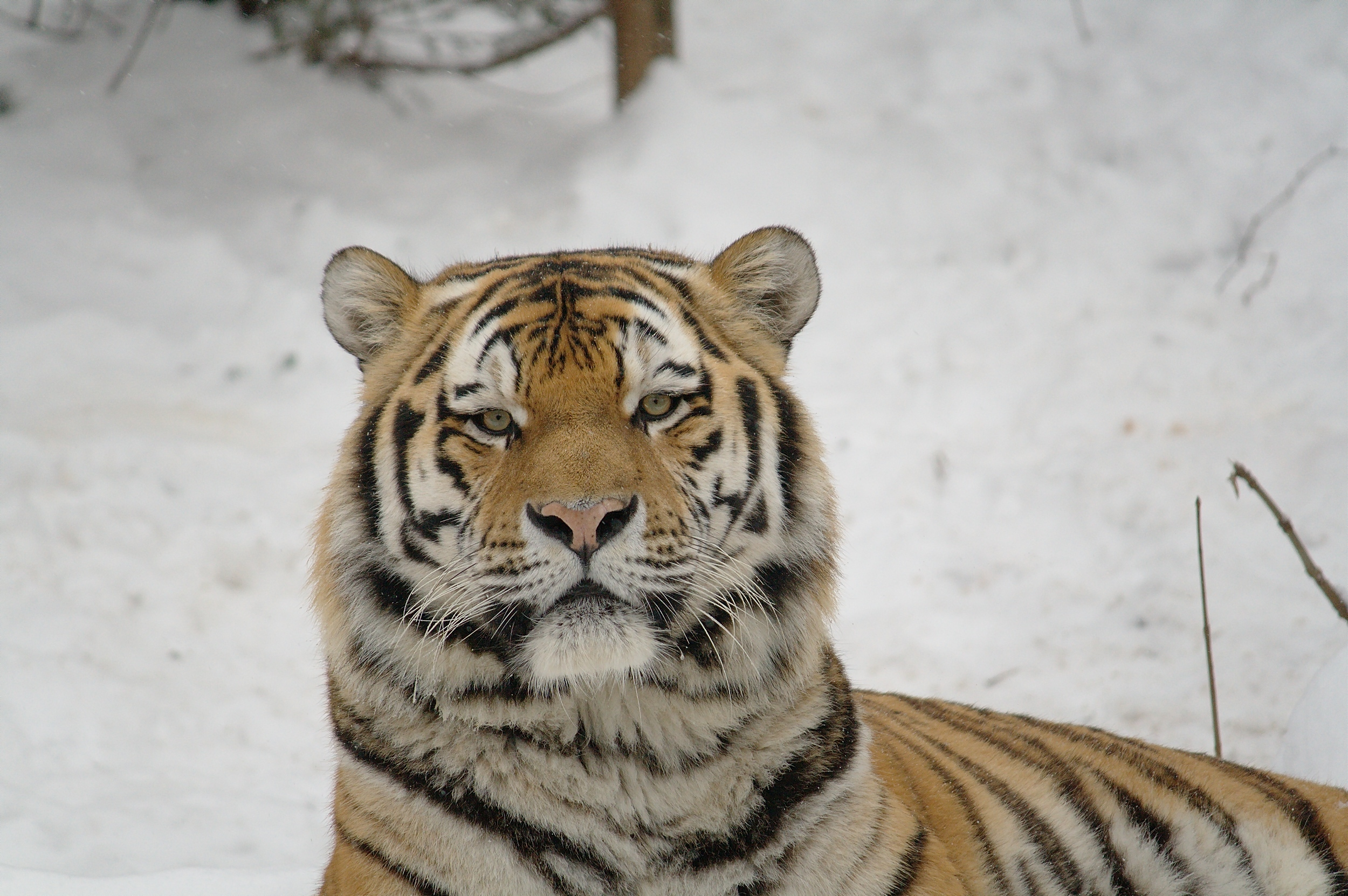 Male Panthera tigris altaica (Portrait)